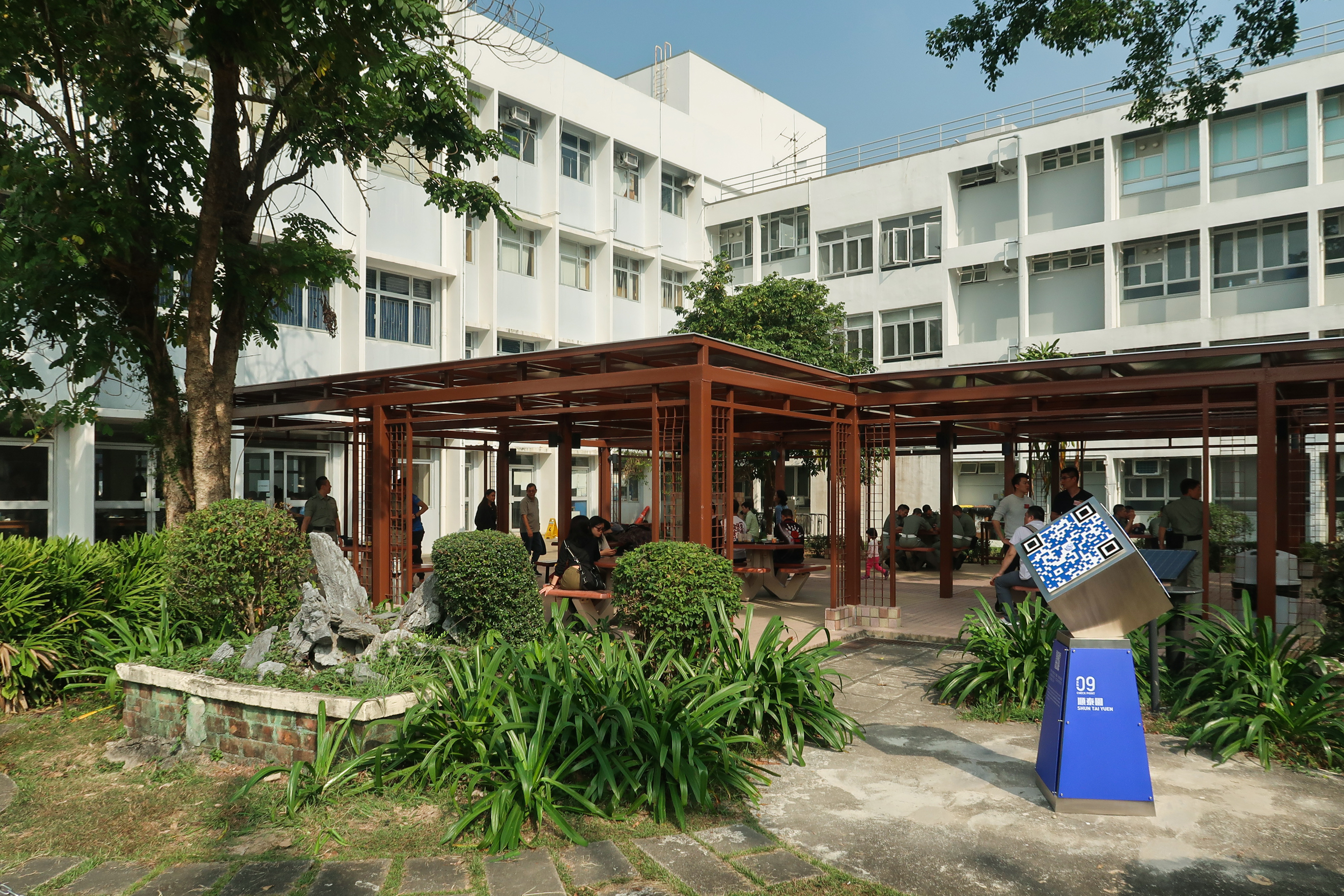 Hong Kong Police College Shun Tai Yuen